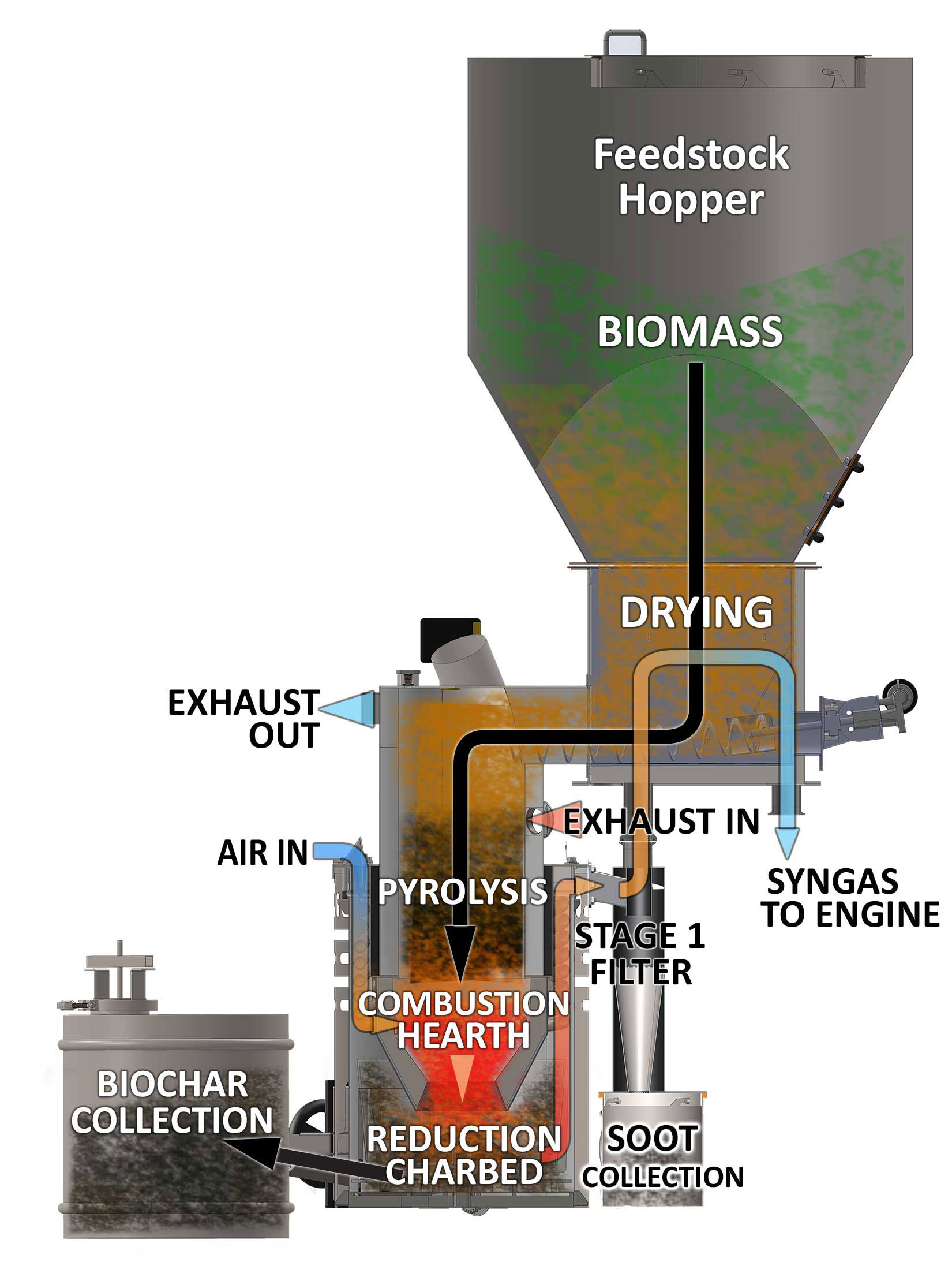 Overlays of flow identifiers on rendering of proprietary GEK Gasifier